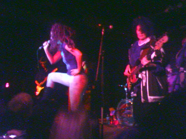 The Slits performance taken at 1:42 AM on November 12, 2006